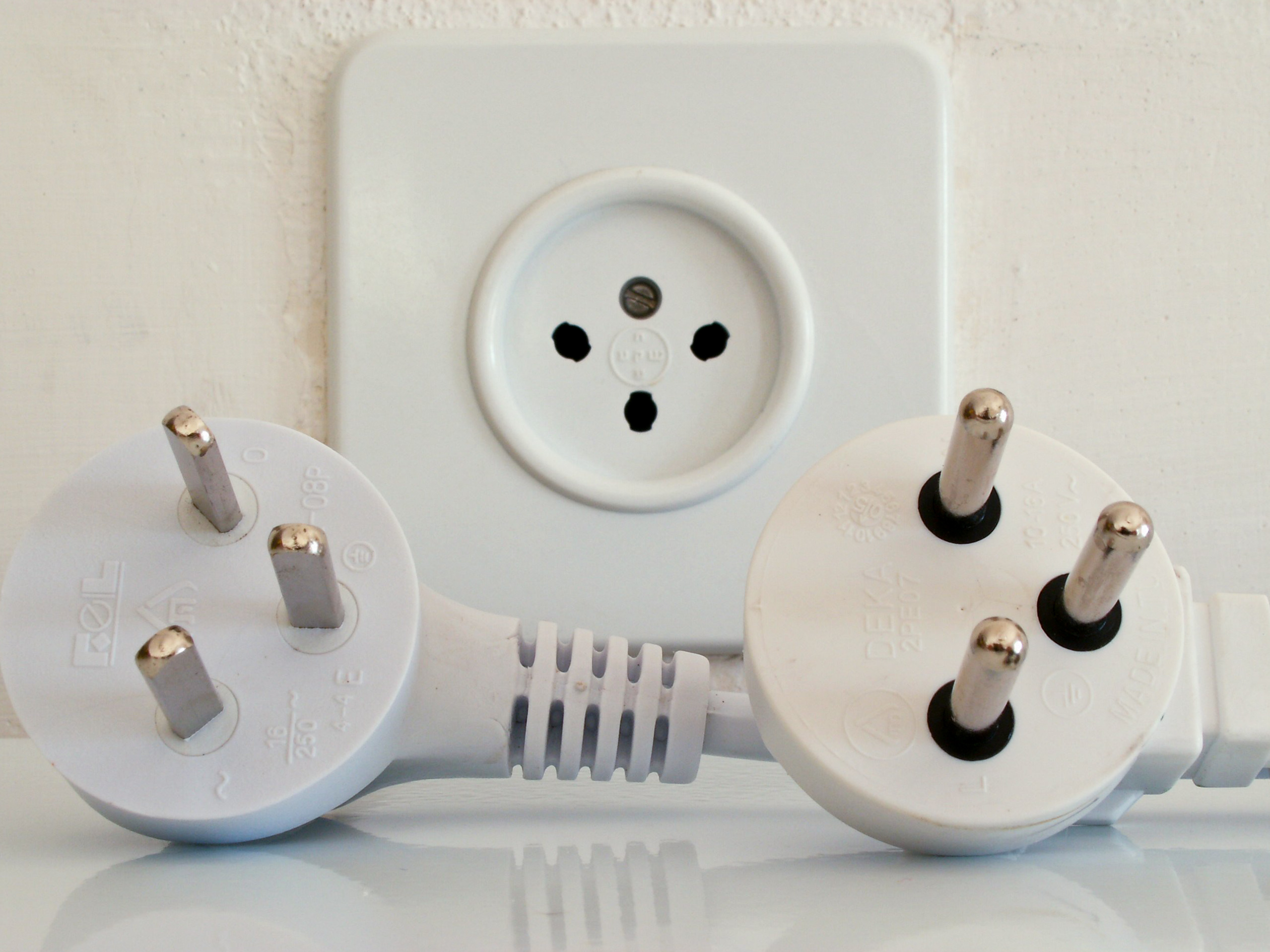 Two Israeli type H power plugs (older style on the left and newer style on the right) and one type H socket (of the ubiquitous hybrid variety that also accepts type C plugs). Standardization according to SI 32 (Israeli Standard)